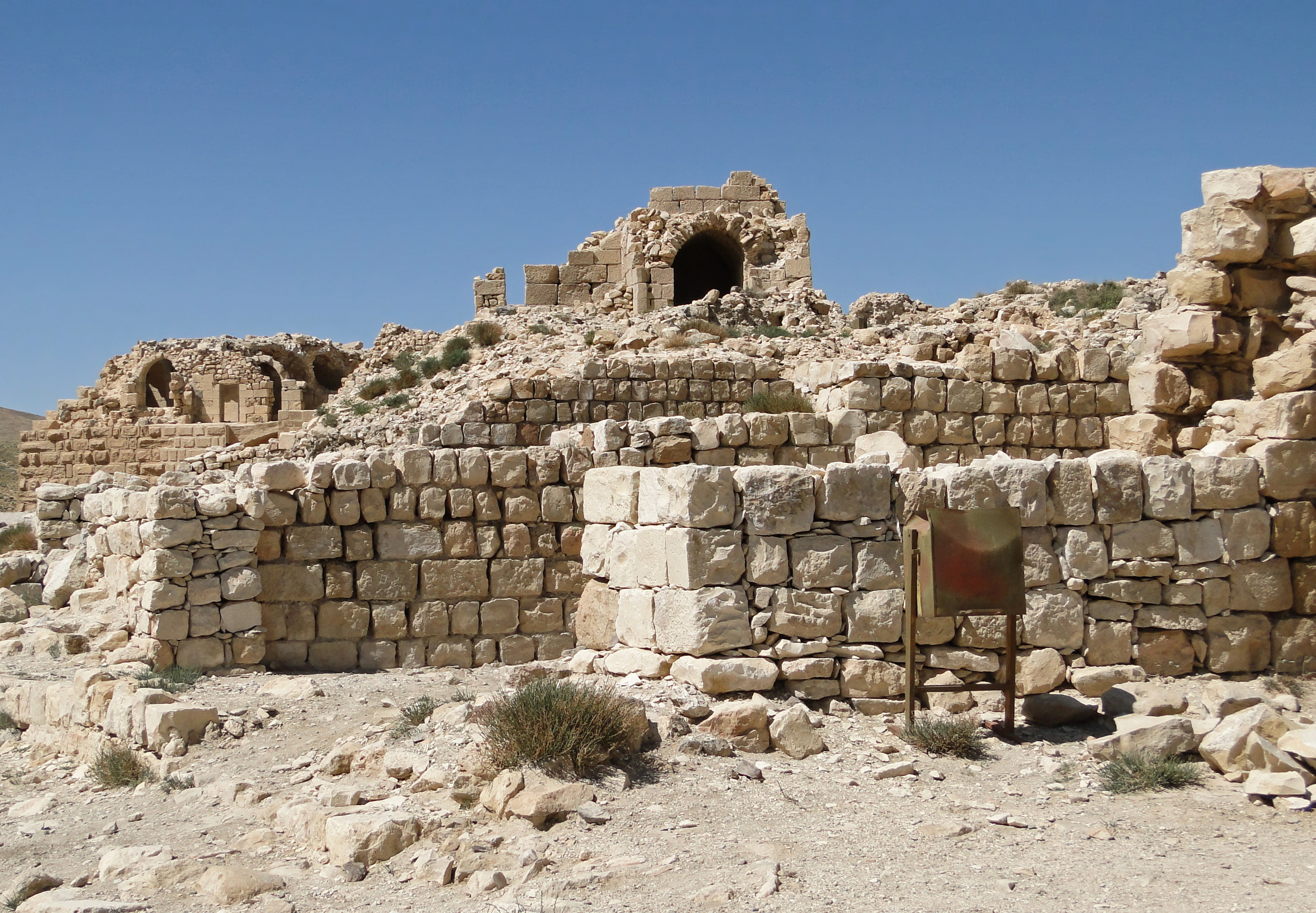 Ruins inside the Montreal Castle, Shoubak, Jordan